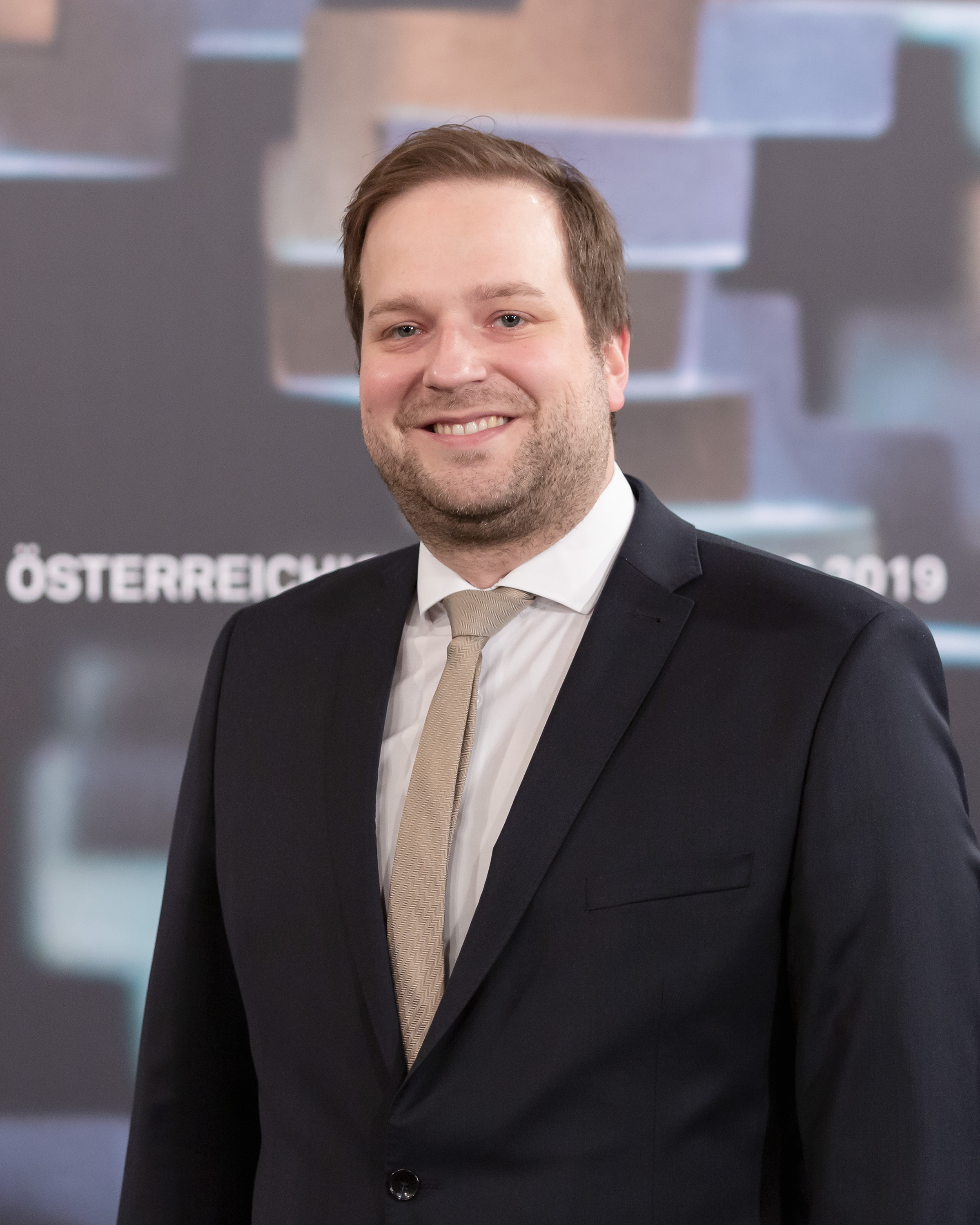 Alexander Glehr (producer "Angelo"), photo call at the Austrian Film Awards 2019 (Rathaus, Vienna,Austria).